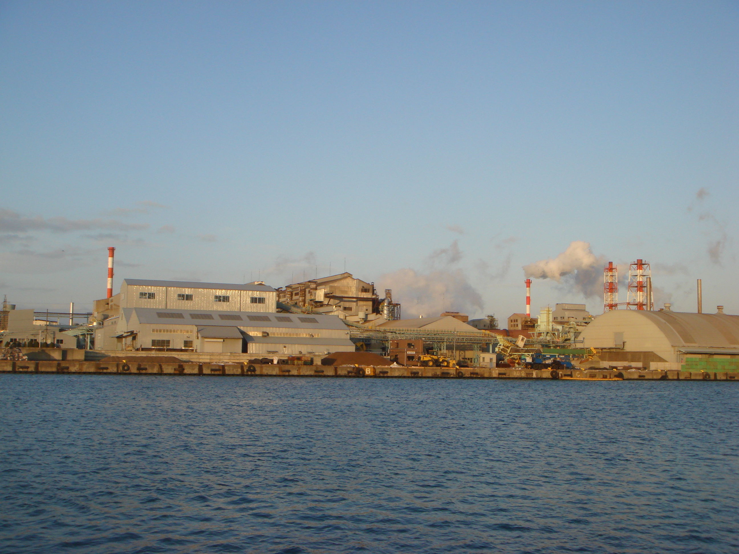 The first industrial port is looked at in Hachinohe city Aomori,Japan.